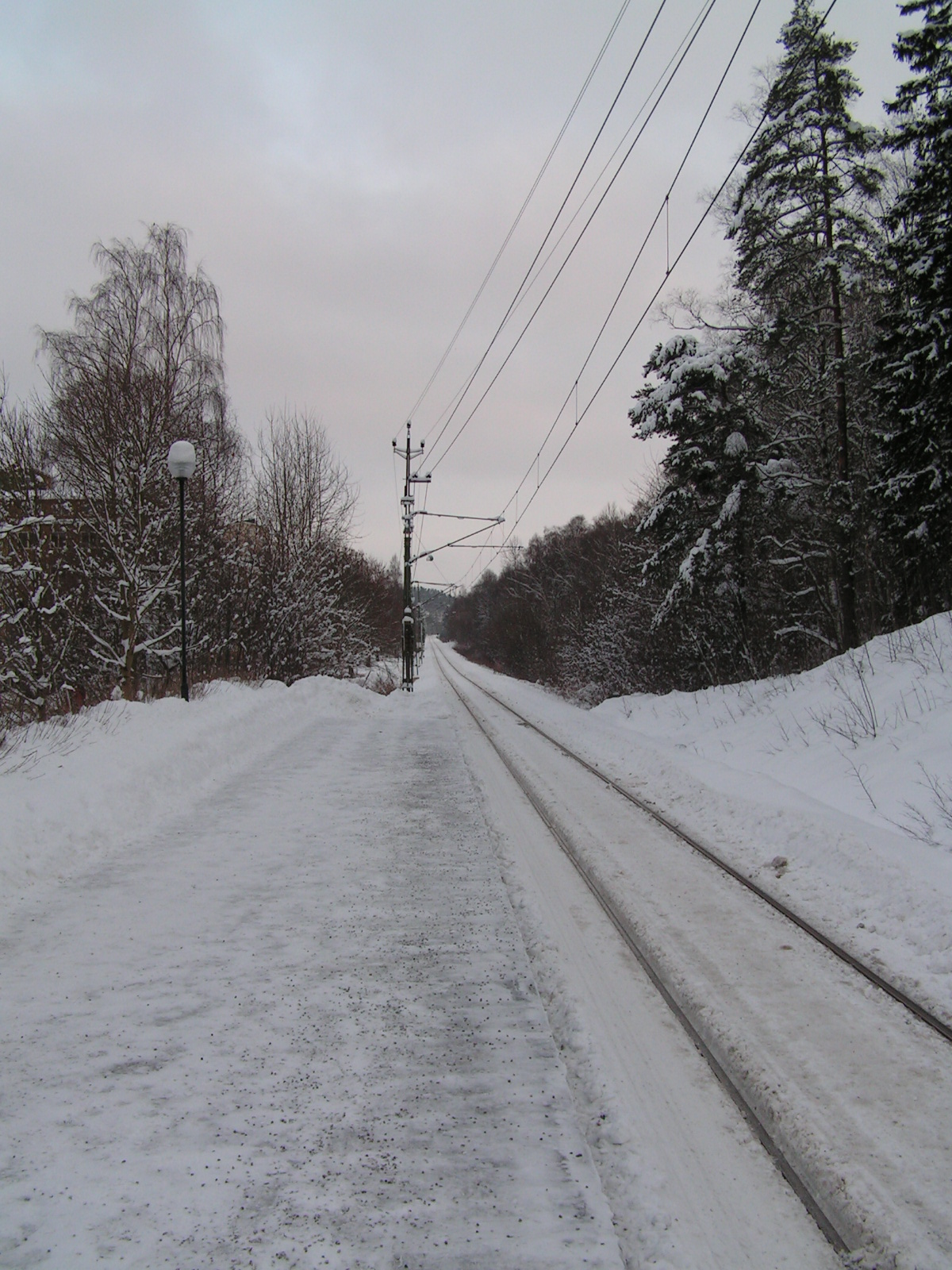 Knalleland halt, looking north